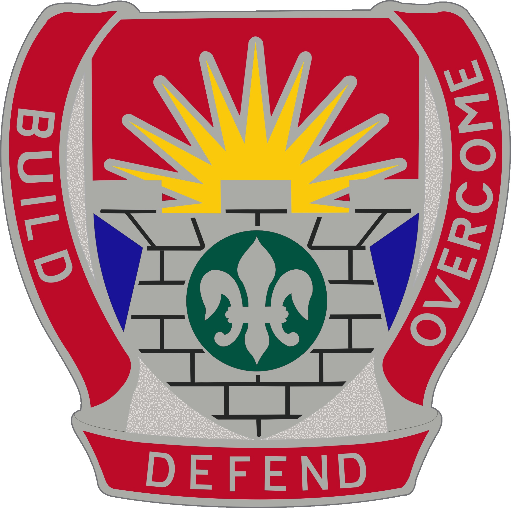 The distinct unit insignia for the 204th Engineer Battalion of the New York Army National Guard.